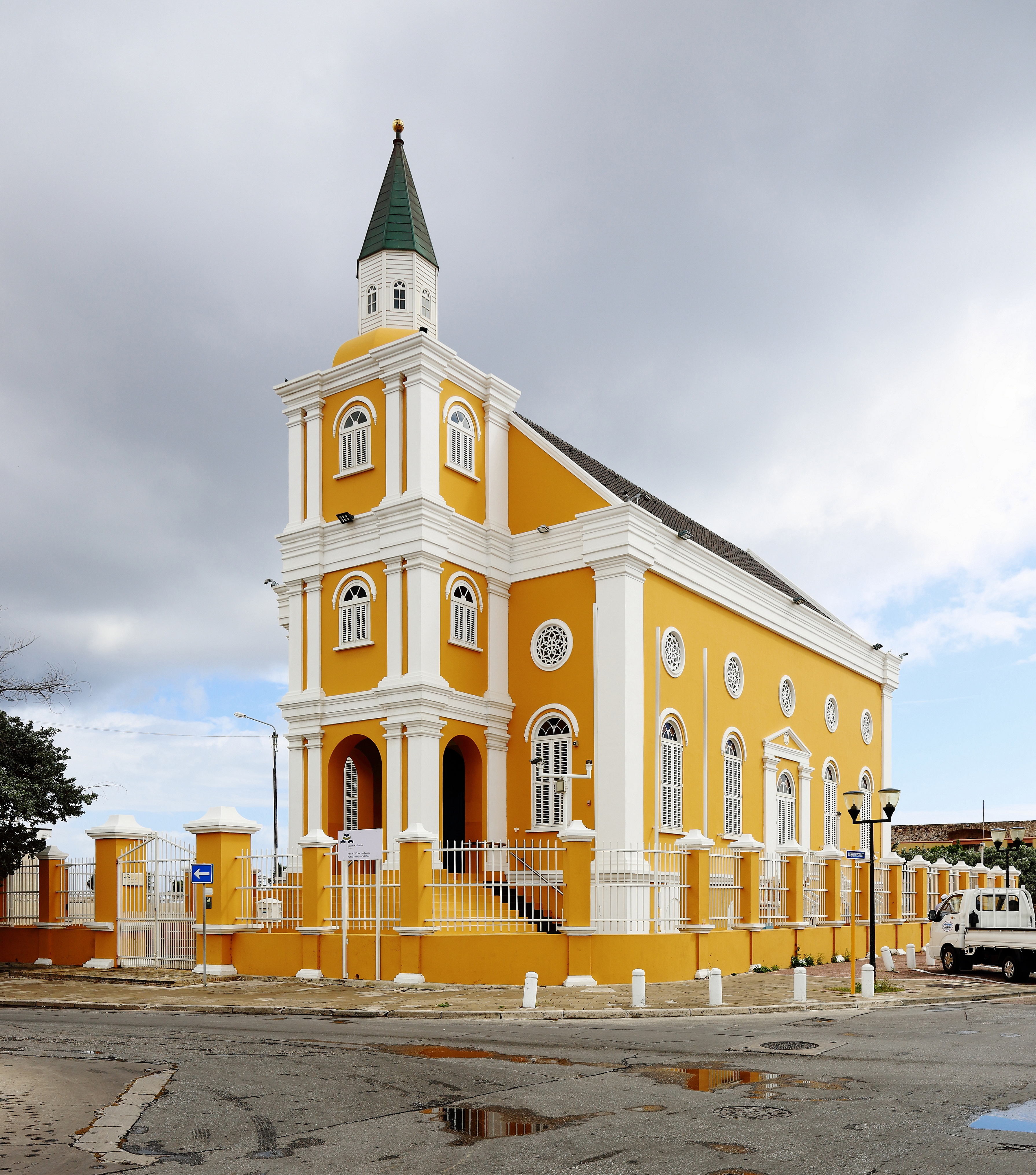 Temple Emanuel, Willemstad, Curaçao, finished in 1867 for the Dutch Reformed Jewish community.